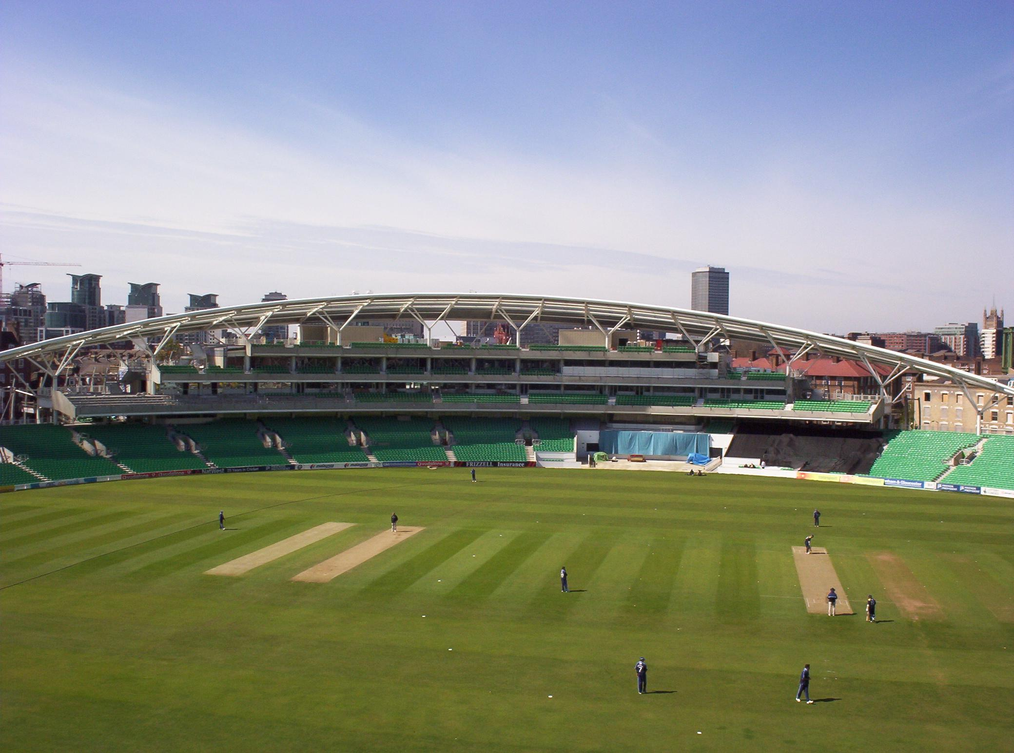 The new OCS Stand at the Vauxhall End of the Oval, as photographed from the top seating in the Pavilion on 17 April 2005 by self.